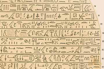 Part of the Stela of Nastasen mentioning (row 13) the Egyptian invader Kambasuten (possibly the same as Khababash), whose invasion of Kush was rejected by Nastasen himself. [ref: Henri Gauthier, Le Livre des rois d'Égypte, IV, (MIFAO 20), Cairo, 1916, p. 196]